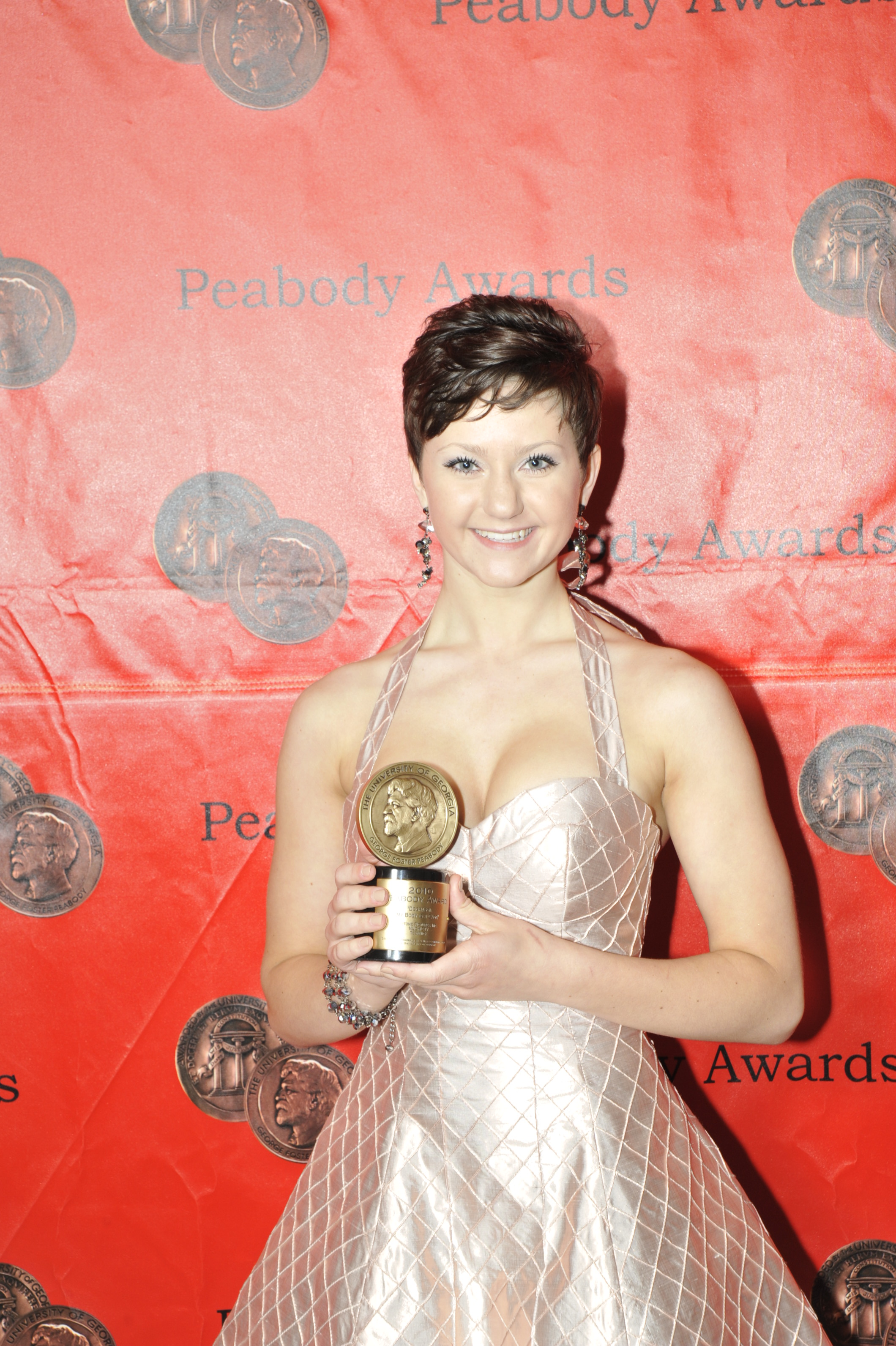 PHOTO CREDIT: ANDERS KRUSBERG / PEABODY AWARDS Jordan Todosey with the award for Degrassi: My Body is a Cage 70th Annual Peabody Awards Luncheon Waldorf=Astoria Hotel May 23, 2011